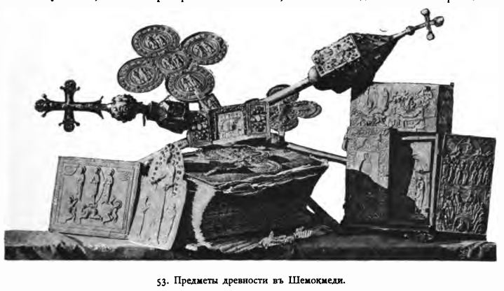 Antiquities from Shemokmedi. A photo from N. Kondakov's 1890 book on Georgia's church collections.